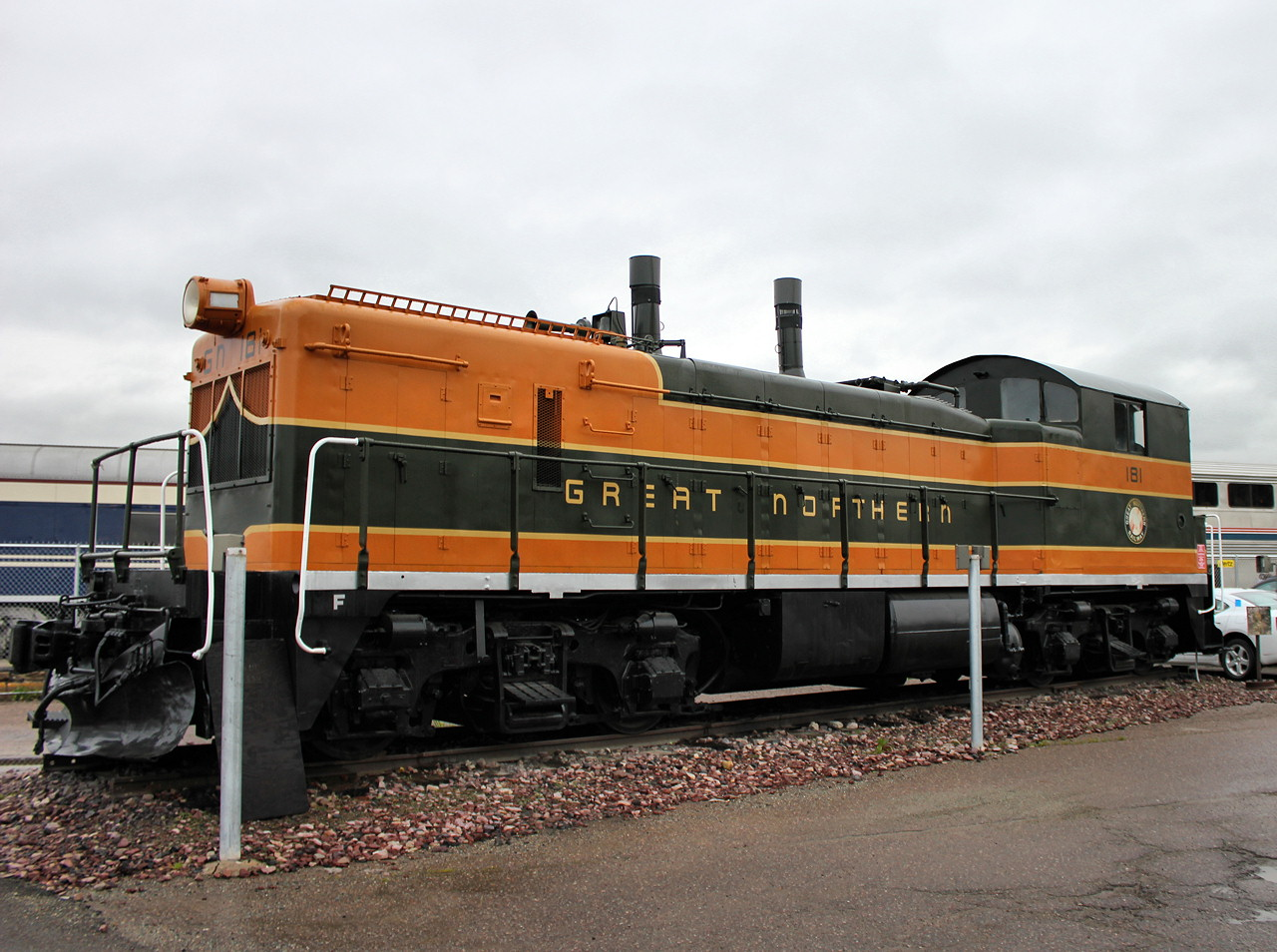 Great Northern EMD NW3 #181 preserved at the Whitefish Amtrak station.